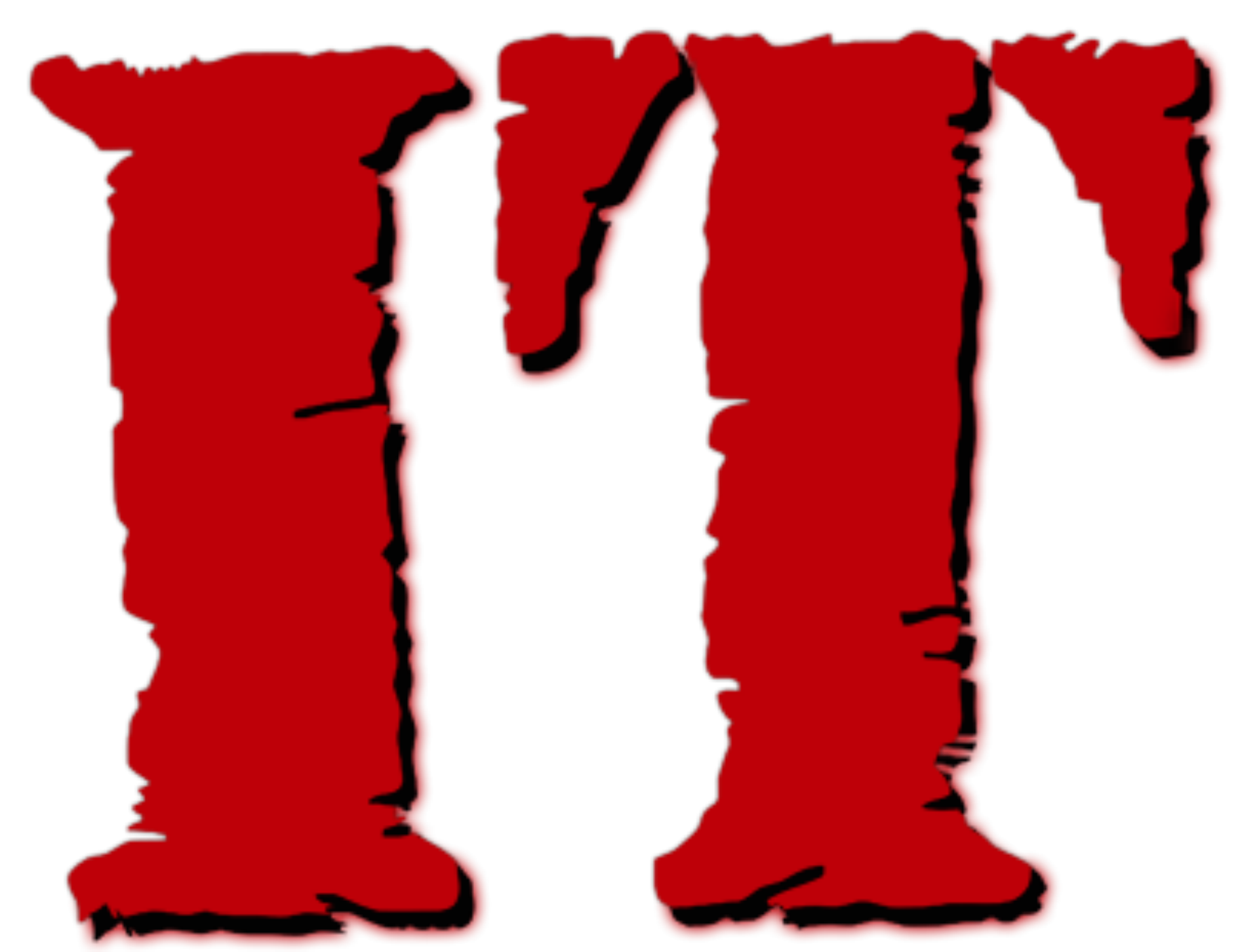 IT (1990) logo